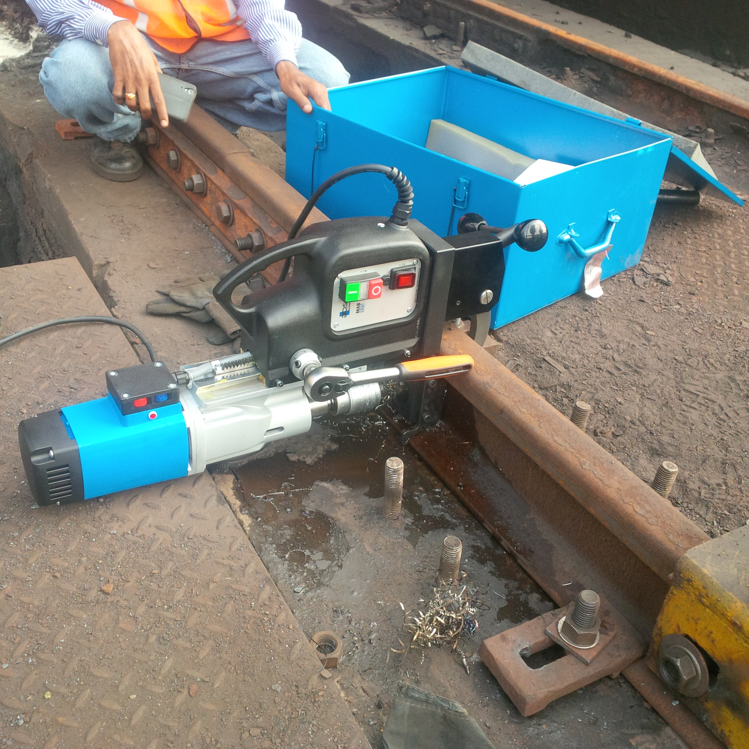 An Electric Rail Drilling Machine manufactured by BDS MAschinen GmbH (Germany)